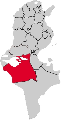 Map of Tunisia with highlighted Kebili Governorate